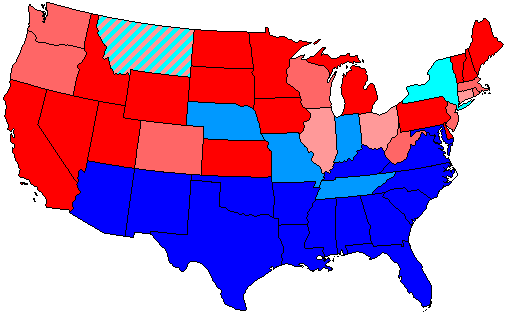 Summary of party control of U.S. house seats in the 72nd United States Congress following election. Stripes indicate a tie between two or more parties. Legend: 80.1-100% Democratic seat majority 60.1-80% Democratic seat majority 60% or less Democratic seat plurality 60% or less Republican seat plurality 60.1-80% Republican seat majority 80.1-100% Republican seat majority